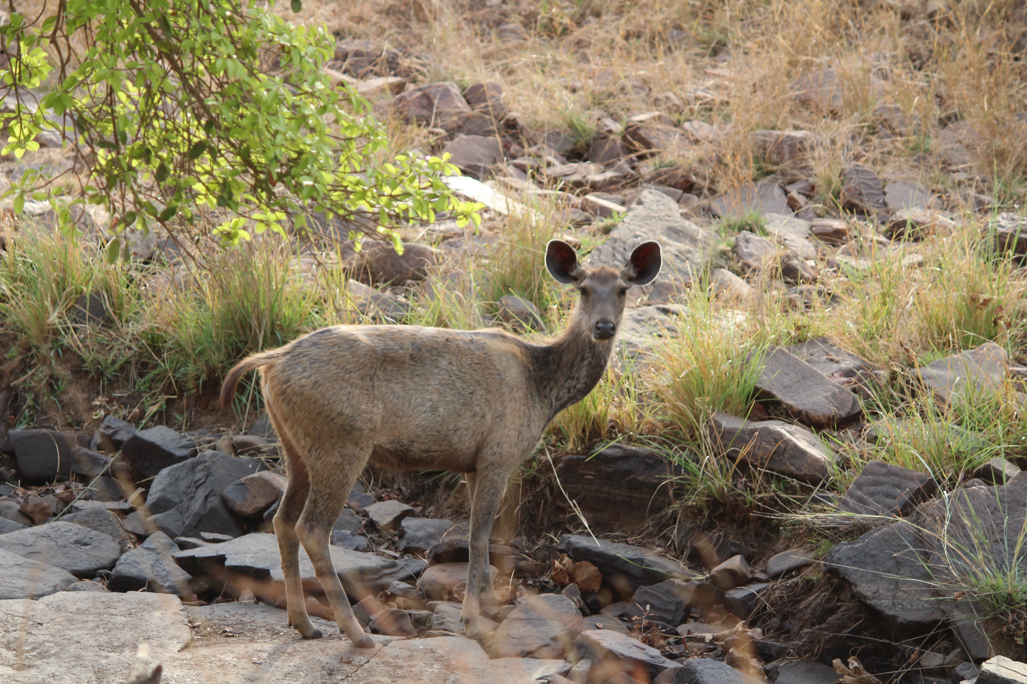 My click @ Panna national park..!